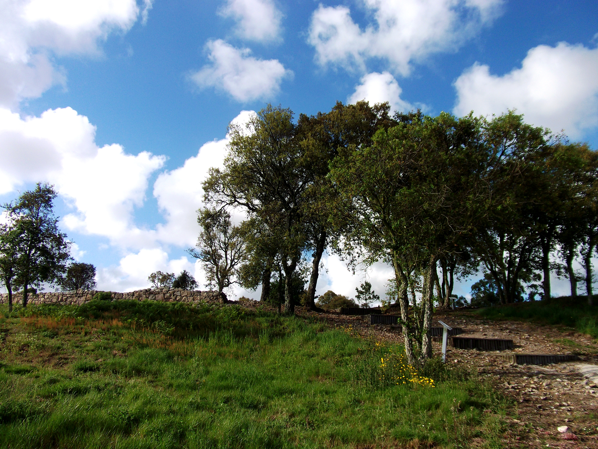 Modern entrance to Cividade de Terroso